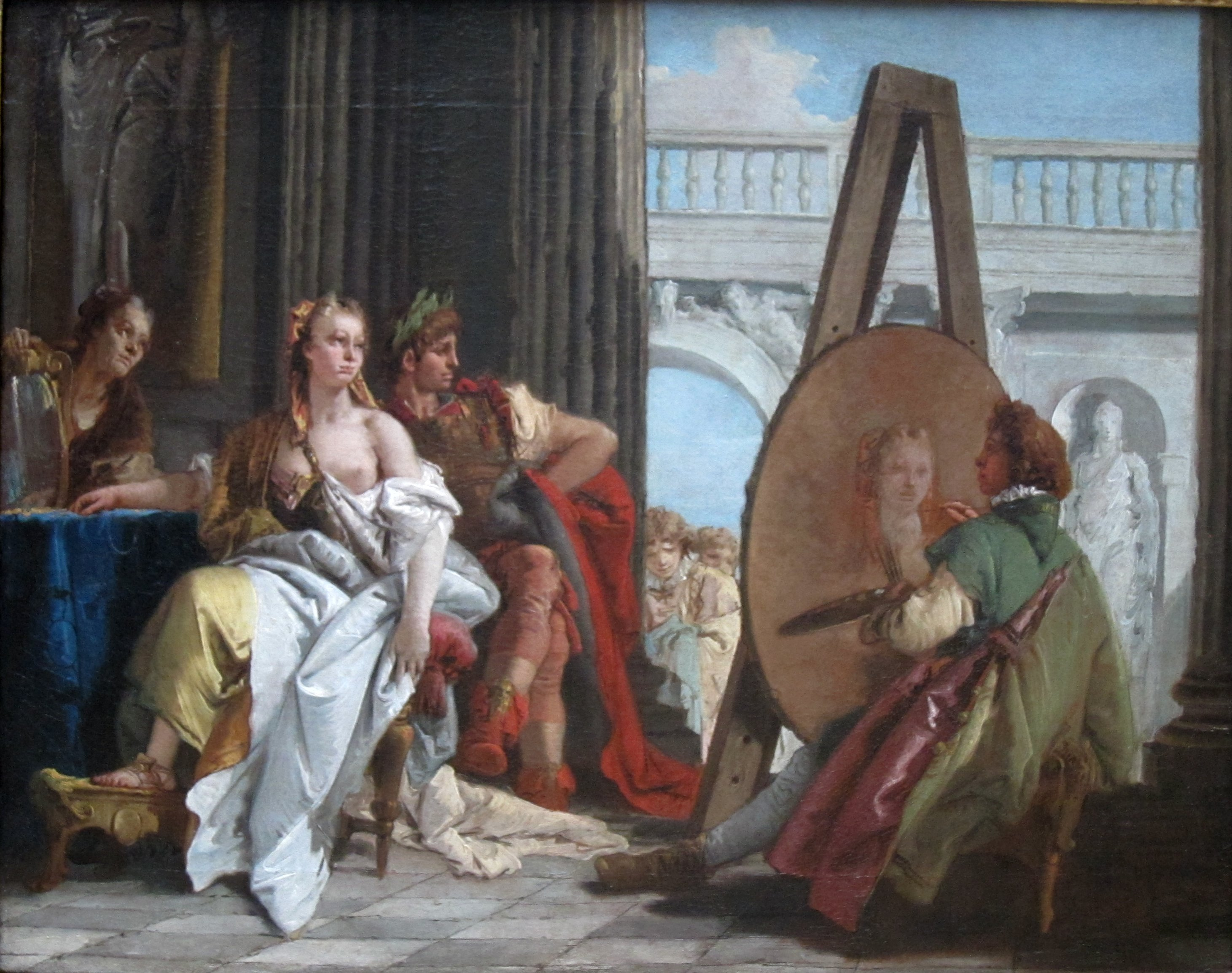 third version